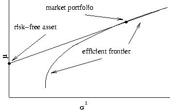 from xfig source portfolio CAPM